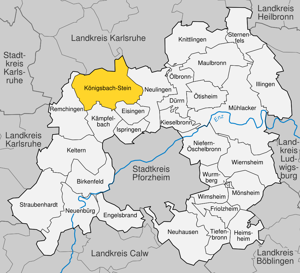 position of Königsbach-Stein within distict of Enzkreis, Baden-Württemberg, Germany